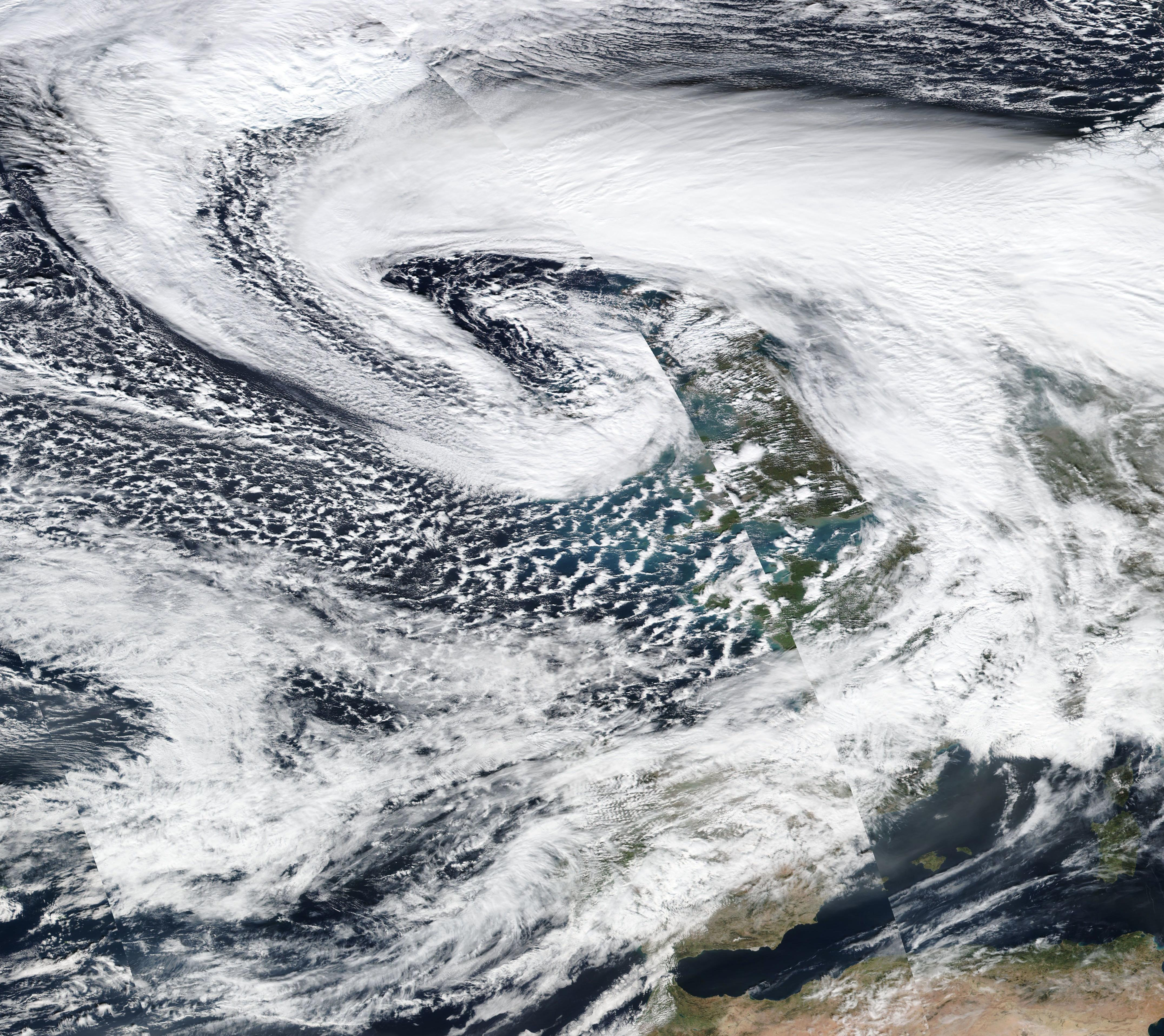 Storm Jorge, of the 2019-2020 European windstorm season, approaching the British Isles on 29 February 2020.